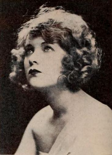 Actress Lillian Hall, on page 52 of the August 2, 1919 Exhibitors Herald.